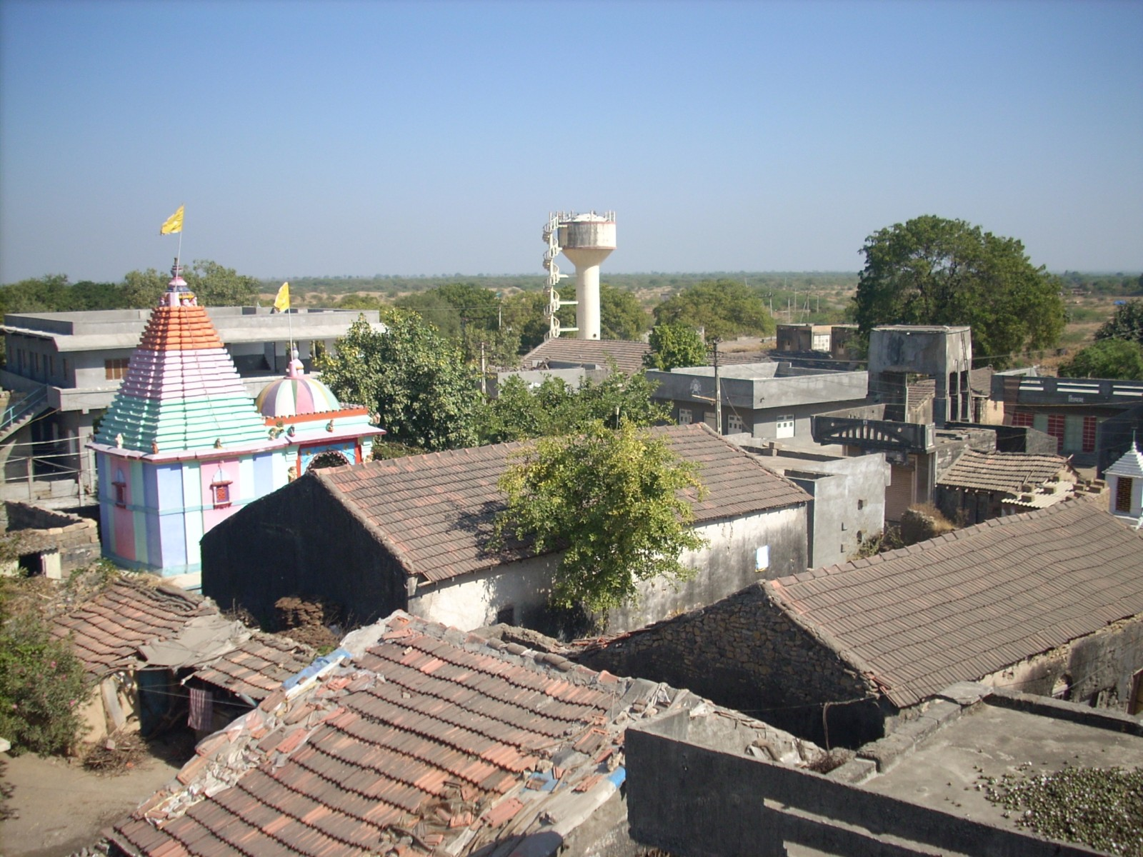 Image of Sherdi Village